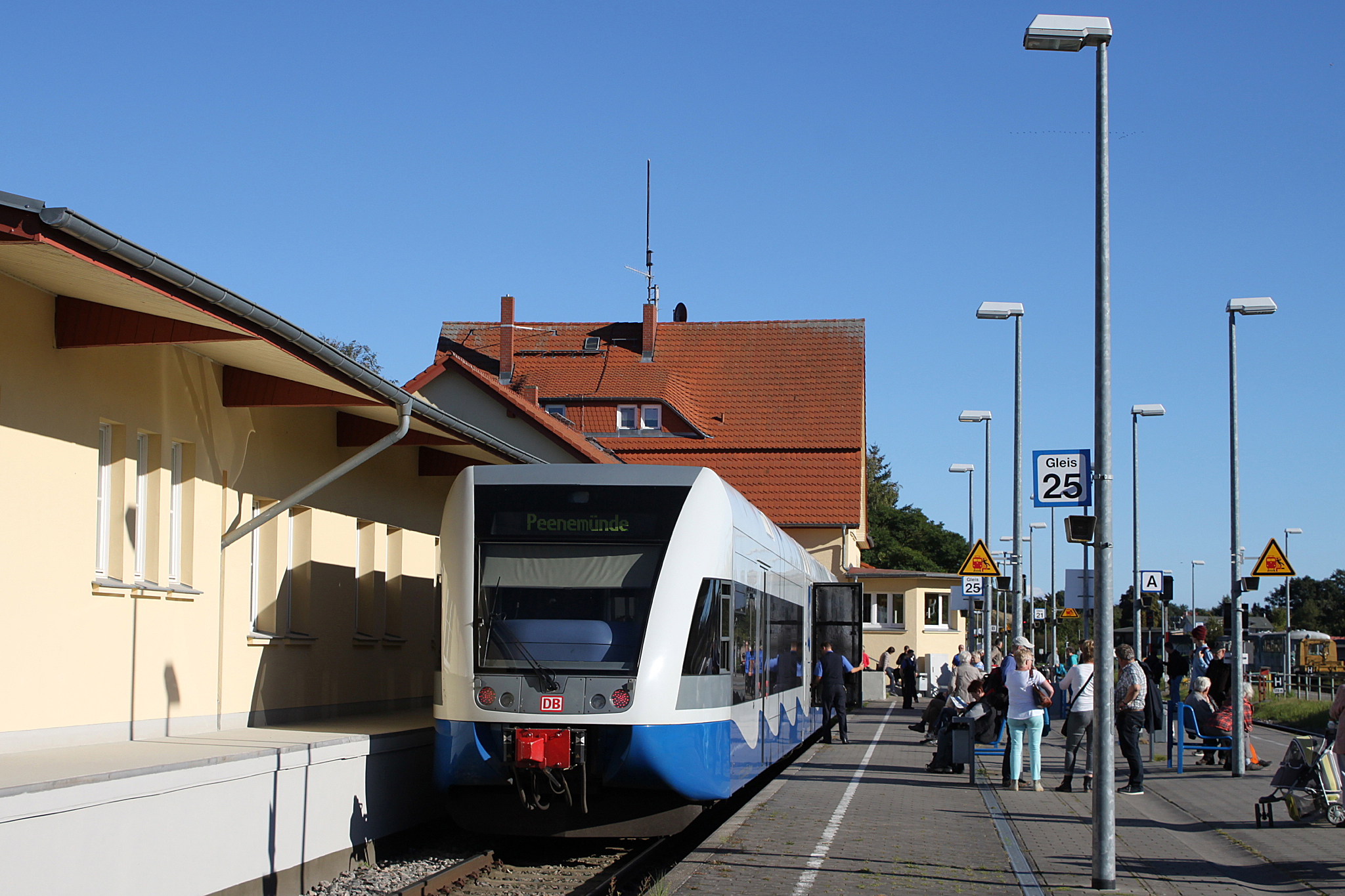 Train to Peenemünde at Zinnowitz train station.